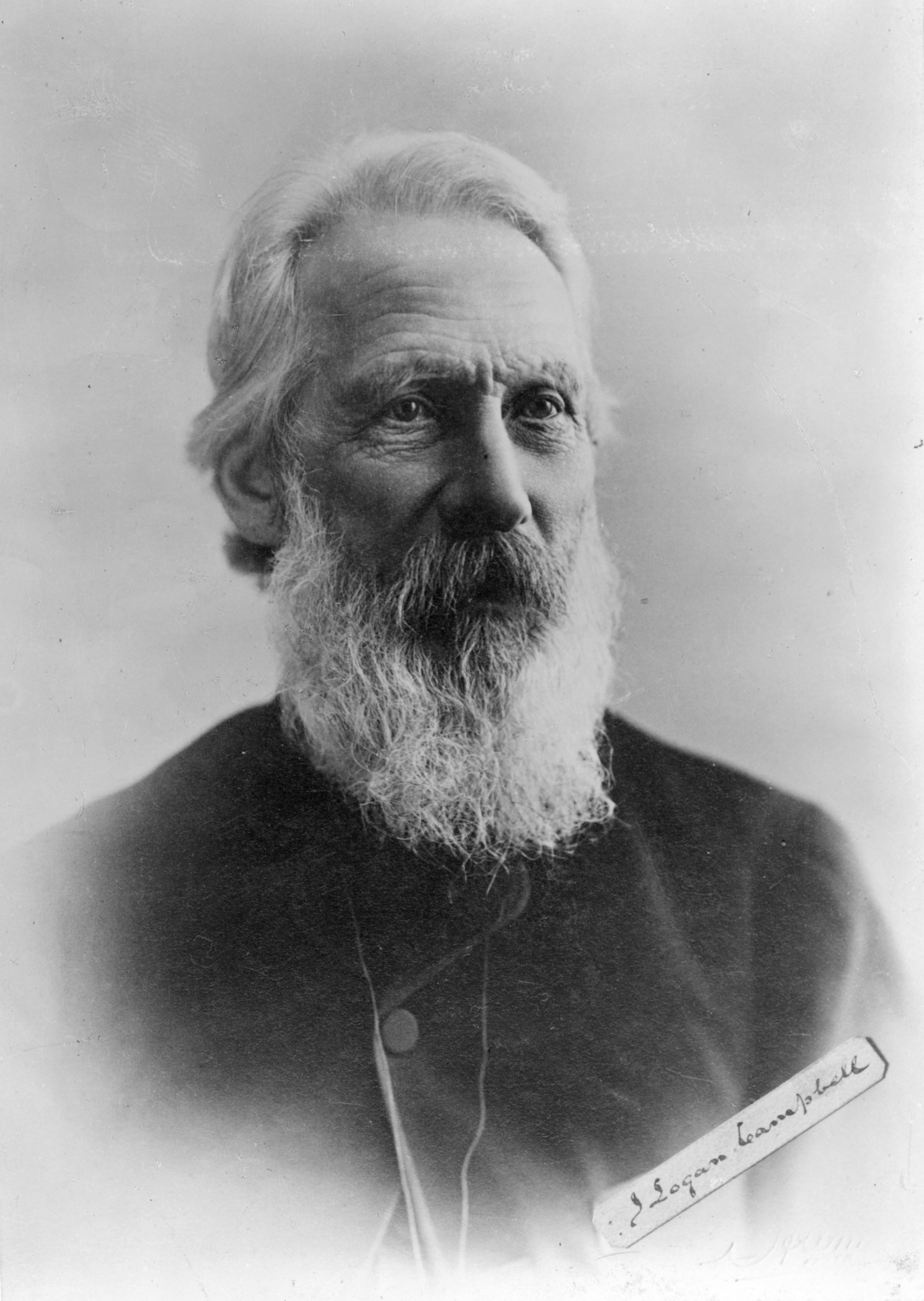 Dr. John Logan Campbell, politician, mayor of Auckland and the first secretary of the Auckland Savings Bank